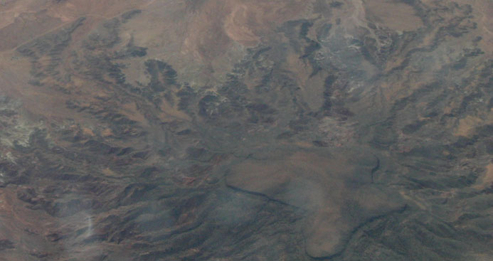 Oblique air photo of Smith Butte, Hopi Buttes Volcanic Field, Arizona, facing south